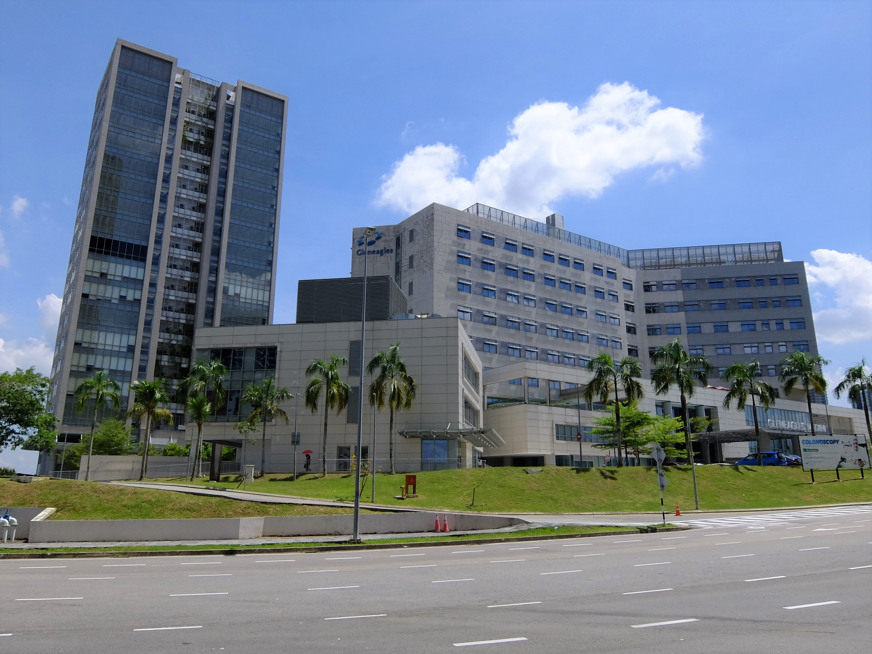 Gleneagles Hospital Medini Johor, Medini Iskandar Malaysia, Iskandar Puteri, Johor Bahru, Johor, Malaysia